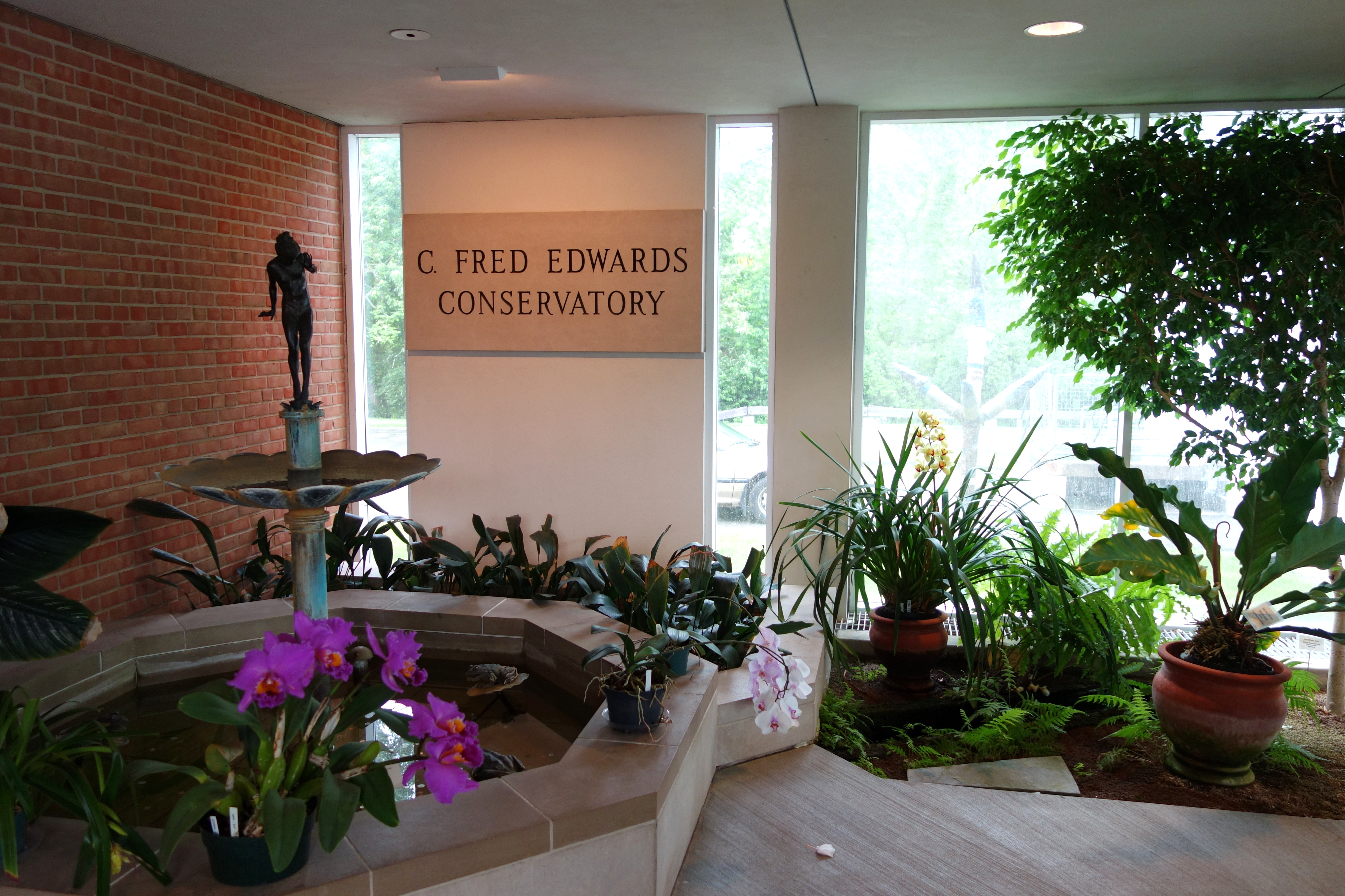 Exhibit in the C. Fred Edwards Conservatory, Huntington Museum of Art, Huntington, West Virginia, USA.